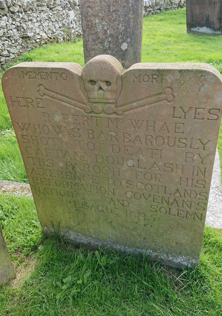 The gravestone of the convenanter Robert McWhae, killed in 1685, in the old churchyard of Kirkandrews